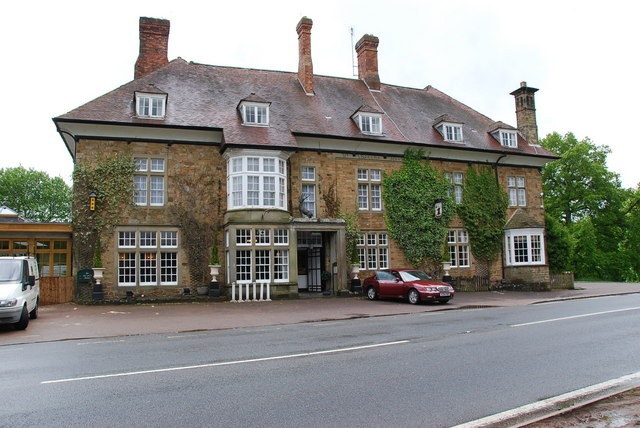 Speech House Hotel Set at the very heart of the Forest of Dean,seen here across the B4226.Just a short distance from Beechenhurst Lodge.